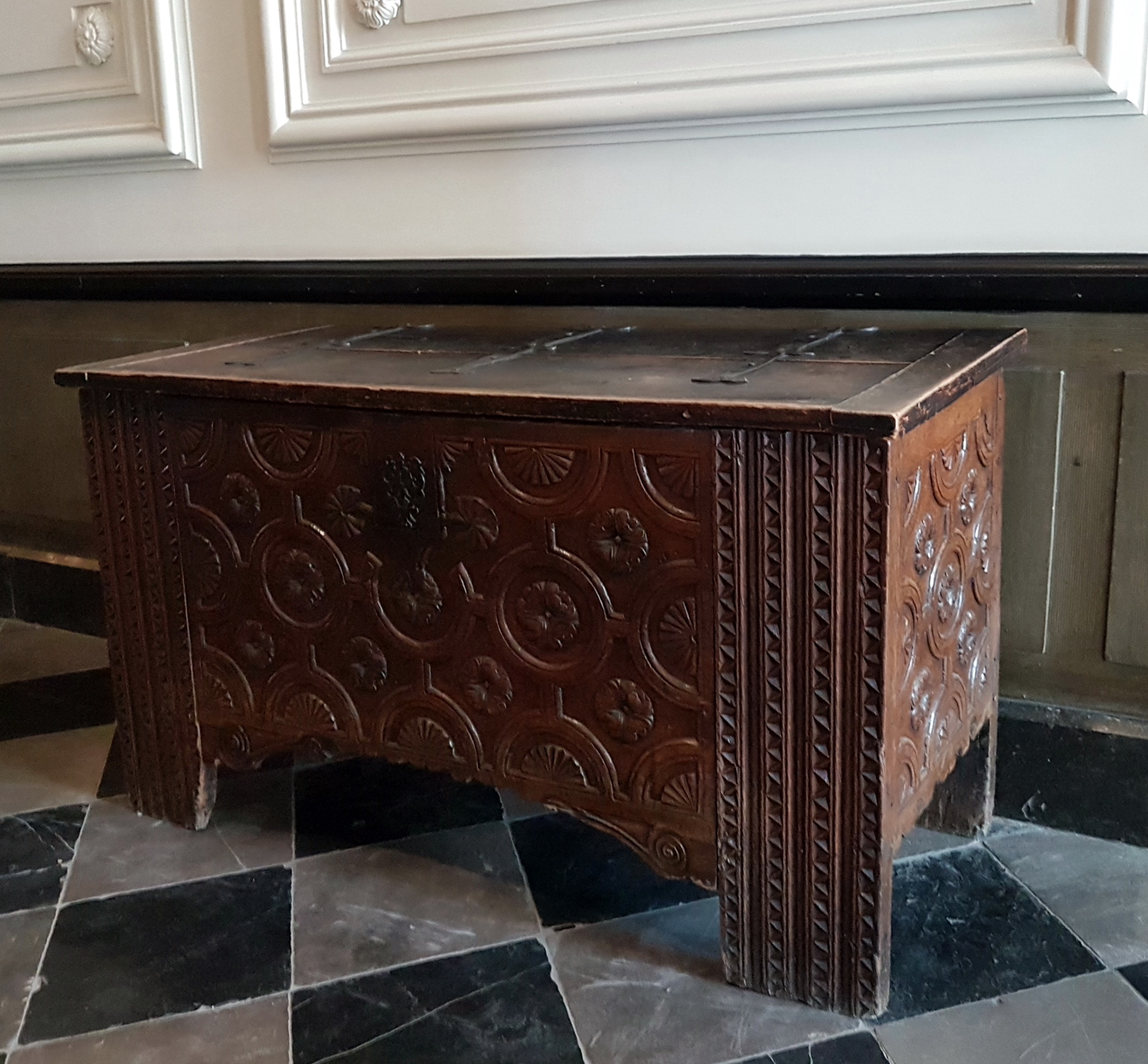 A chest or cassone, probably from the Renaissance period, in the great hall (Plein) in the 17th-century town hall in Maastricht, Netherlands.